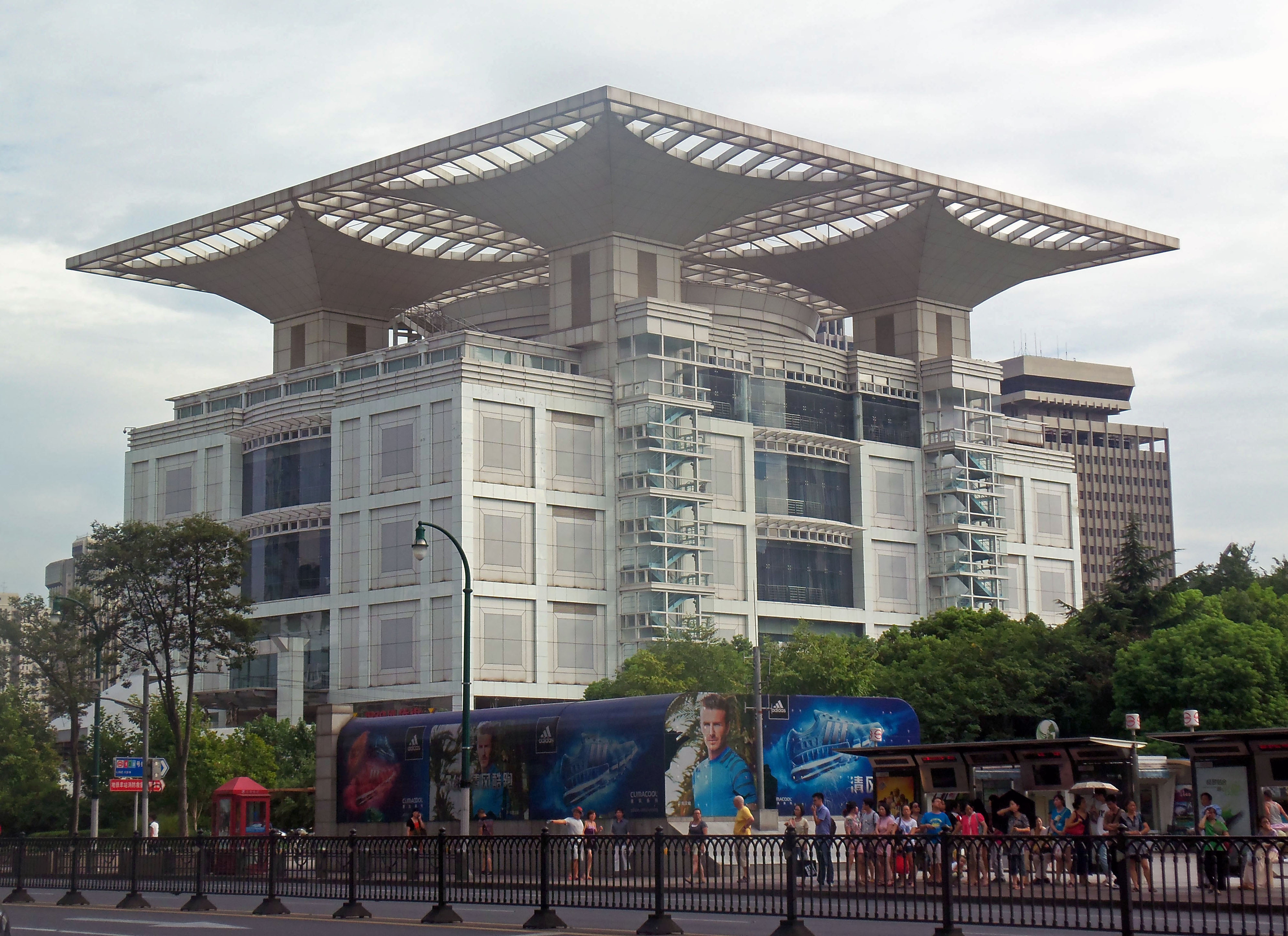 Shanghai Urban Planning Exhibition Center from in front of Raffles City.